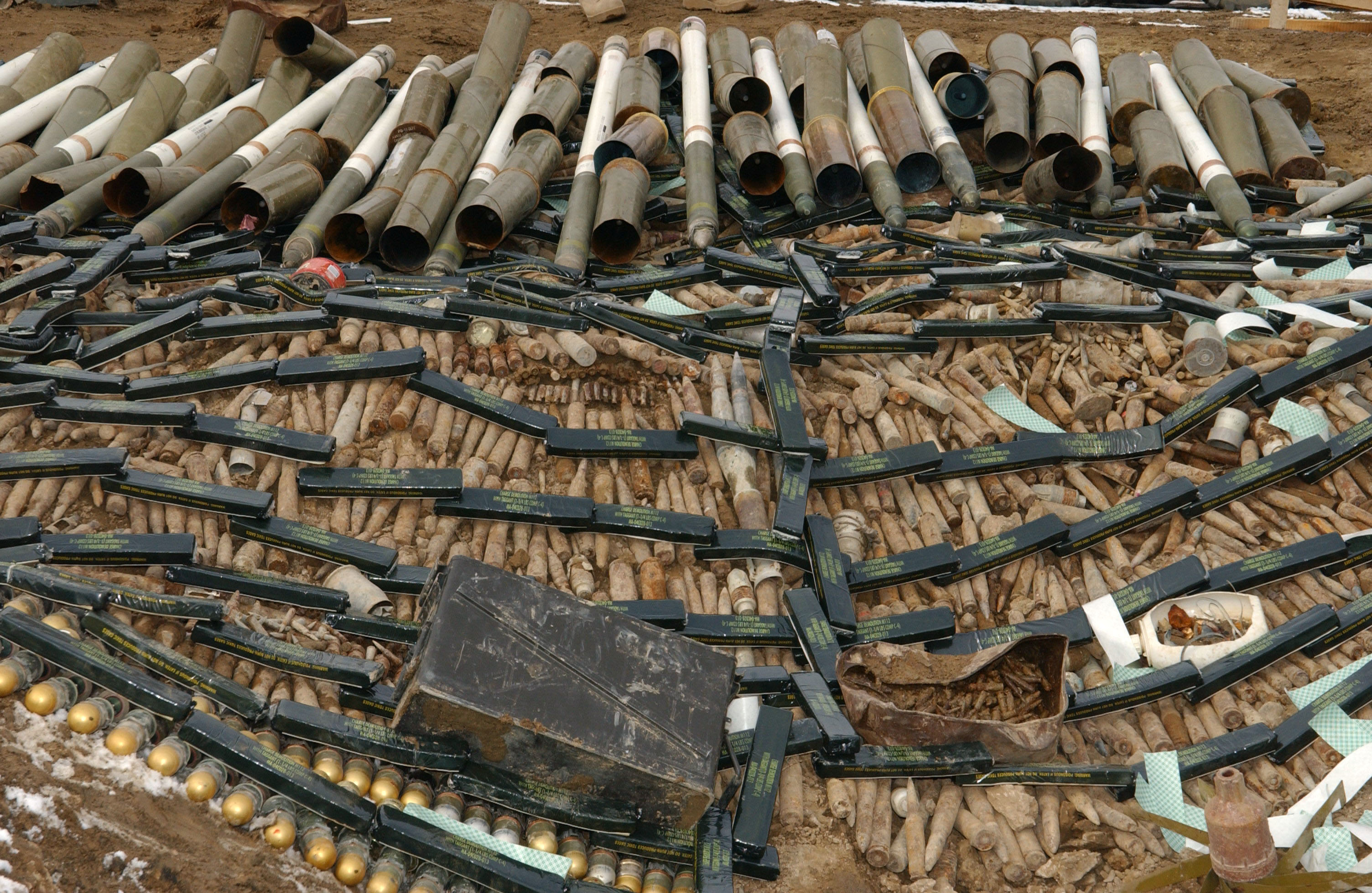 BAGRAM AIR BASE, Afghanistan -- Unexploded ordnance destroyed by the 455th Expeditionary Civil Engineer Squadron explosive ordnance disposal Airmen on Jan. 23 included everything from small arms, aircraft ammunitions and rockets, to Howitzer casings, large projectiles, rifle grenades and anti-tank mines. (U.S. Air Force photo by Capt. Catie Hague)